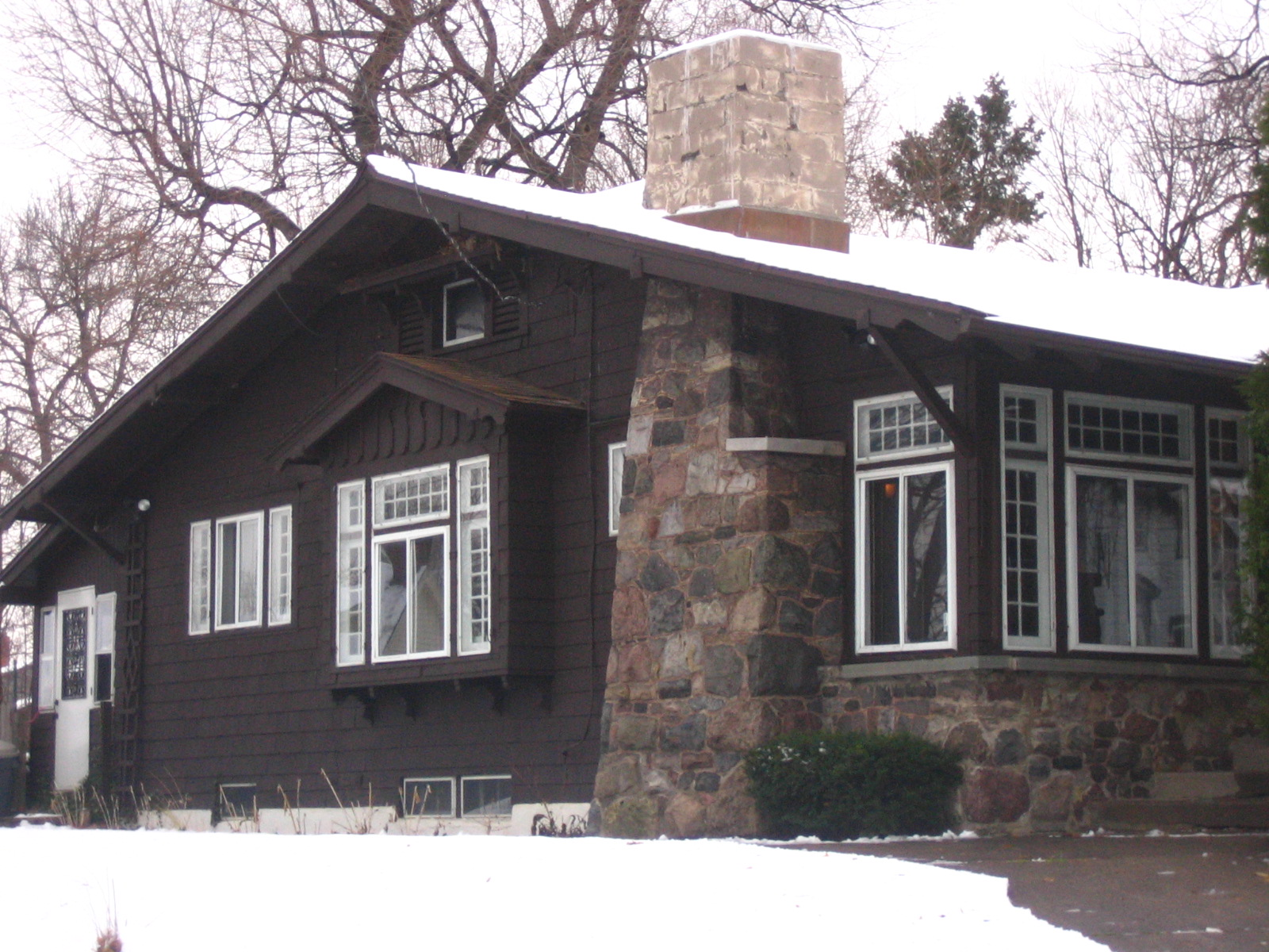 Fuller House, 215 Salt Springs Road, Syracuse, New York. Photo 2.